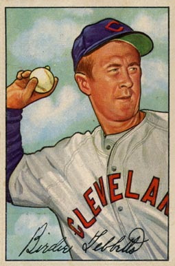 1952 Bowman baseball card of Birdie Tibbetts of the Cleveland Indians #124. PD-not-renewed.